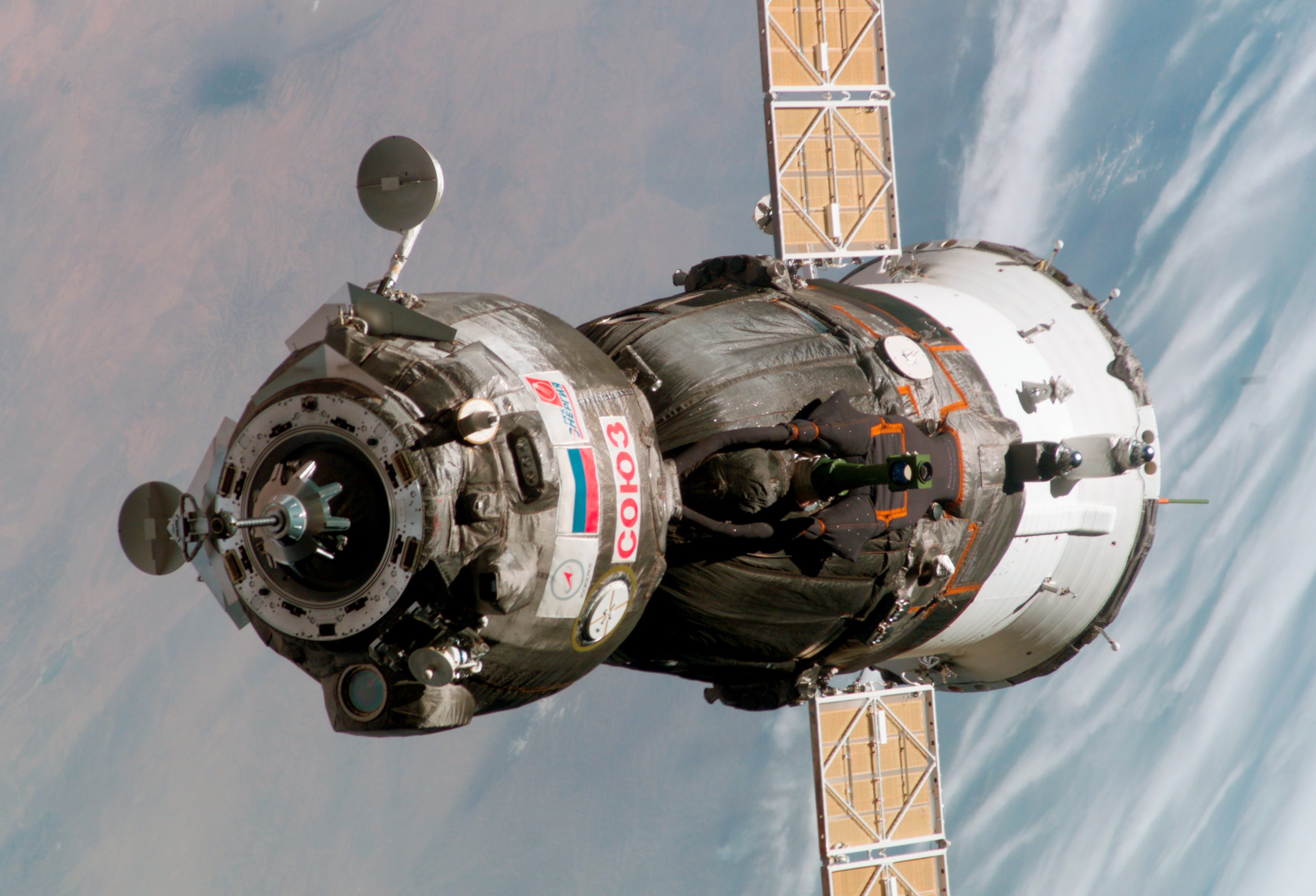 Backdropped by a blue and white Earth, this close-up view features the Soyuz TMA-6 spacecraft approaching the International Space Station (ISS). Onboard the spacecraft are cosmonaut Sergei K. Krikalev, Expedition 11 commander representing Russia's Federal Space Agency; astronaut John L. Phillips, NASA ISS science officer and flight engineer; and European Space Agency (ESA) astronaut Roberto Vittori of Italy. The Soyuz linked to the Pirs Docking Compartment at 9:20 p.m. (CDT) on April 16, 2005 as the two spacecraft flew over eastern Asia. The docking followed Friday’s launch from the Baikonur Cosmodrome in Kazakhstan.